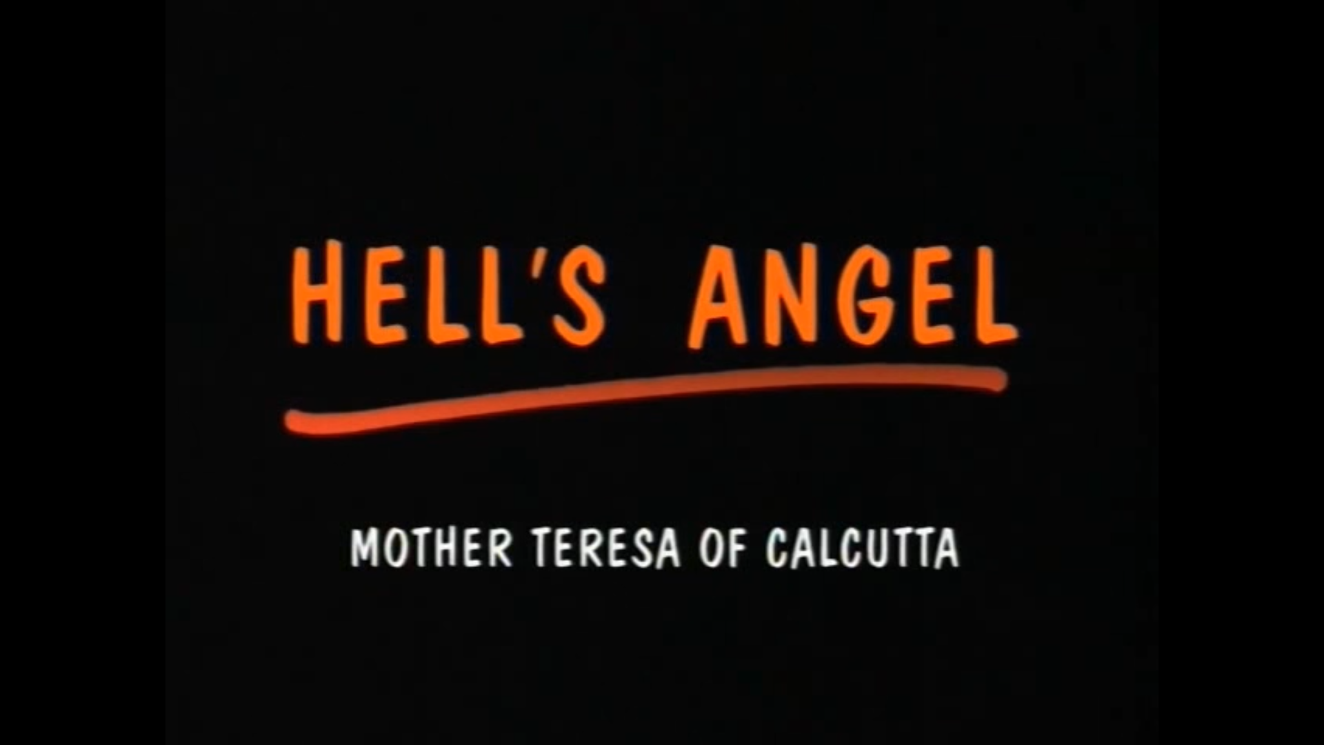 Titlecard of Hell's Angel – Mother Teresa of Calcutta (1994), a documentary by British-American journalist and author Christopher Hitchens.